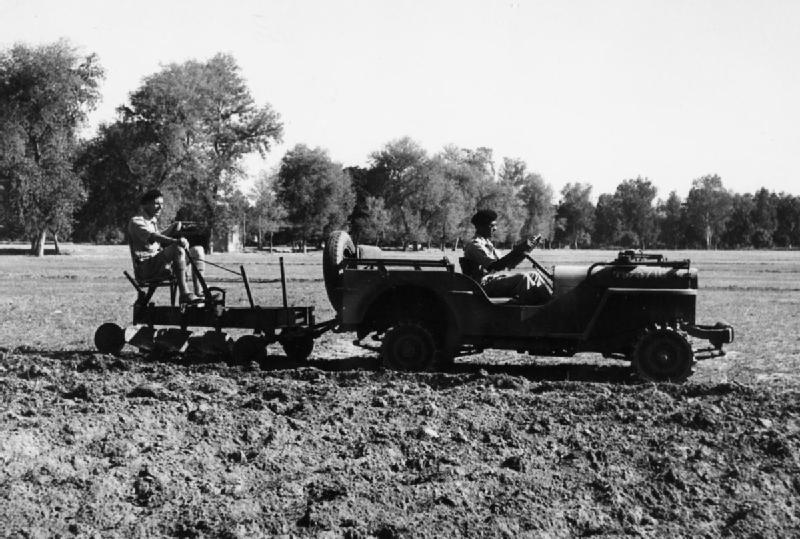 Military Assistance With Agriculture in India, 1946 Trials of a three-furrow plough built in the workshop of the Royal Indian Electrical and Mechanical Engineers at Risalpur. The plough is drawn by a modified jeep.